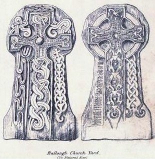 image